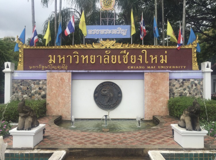 front gate marker located at the front entrance of Chiang Mai University, along Huai Kaew Road